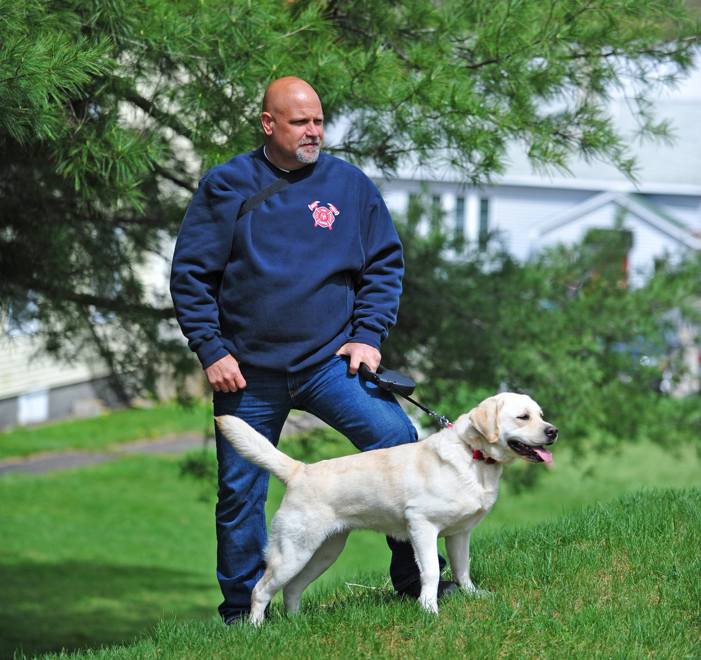 Fire Marshal Doug Bennyhoff and K-9 Yancy are with Great Falls Fire Rescue in Great Falls, Montana. Yancy is a 20 month old female yellow lab. She will be responding to fire investigations throughout the entire state of Montana. Doug is a 26 year firefighter veteran and has served the last 4 years with the Great Falls Fire Marshal’s office as Fire Marshal and a fire investigator.